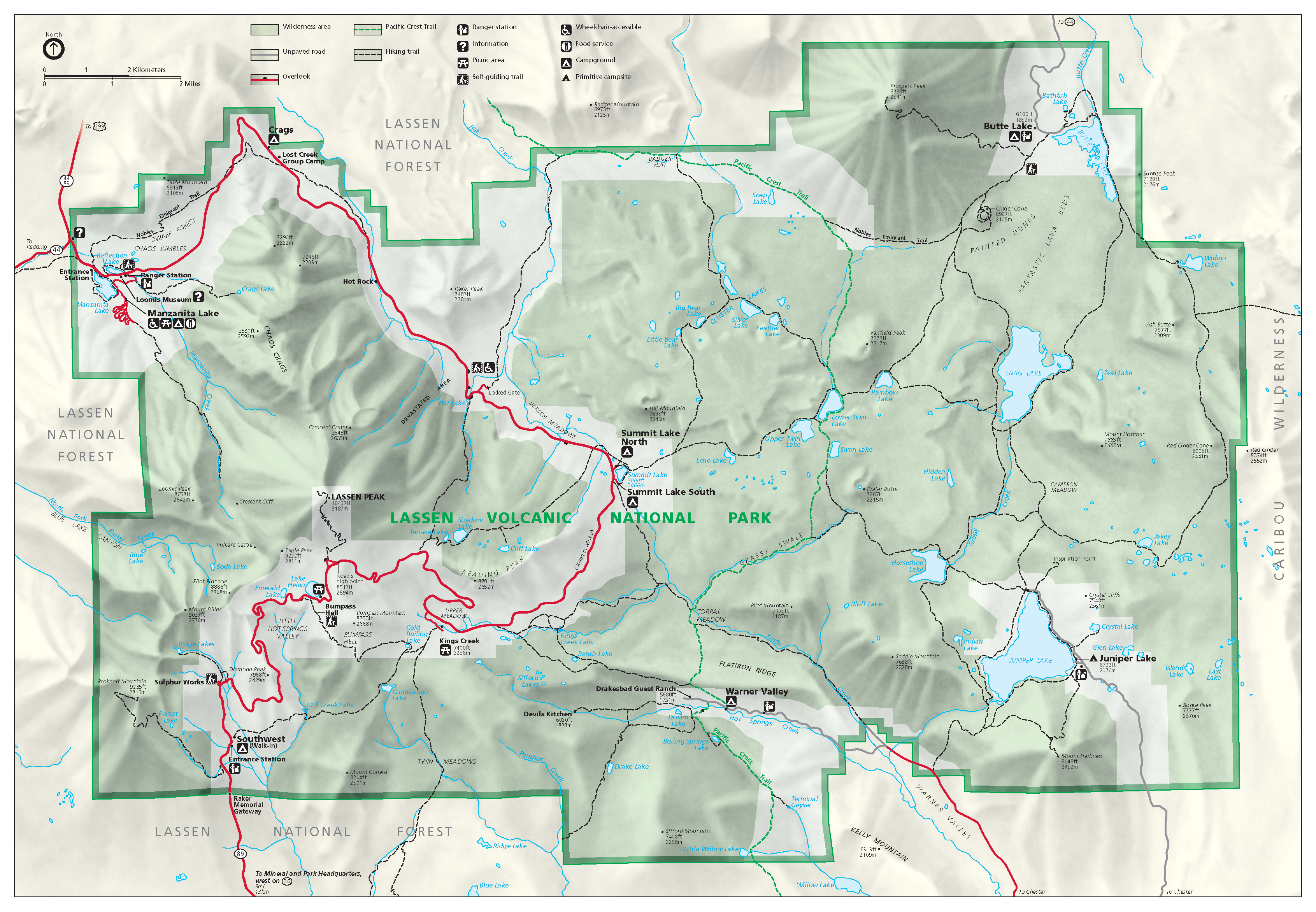 Official National Park Service map of Lassen Volcanic National Park — in northeastern California. Converted from PDF using Adobe Acrobat 7.0 Professional. Original file name: LAVOmap1.pdf